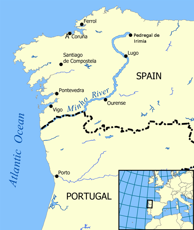 Map of the Minho River in Portugal and Spain. Created by NormanEinstein, August 25, 2005.